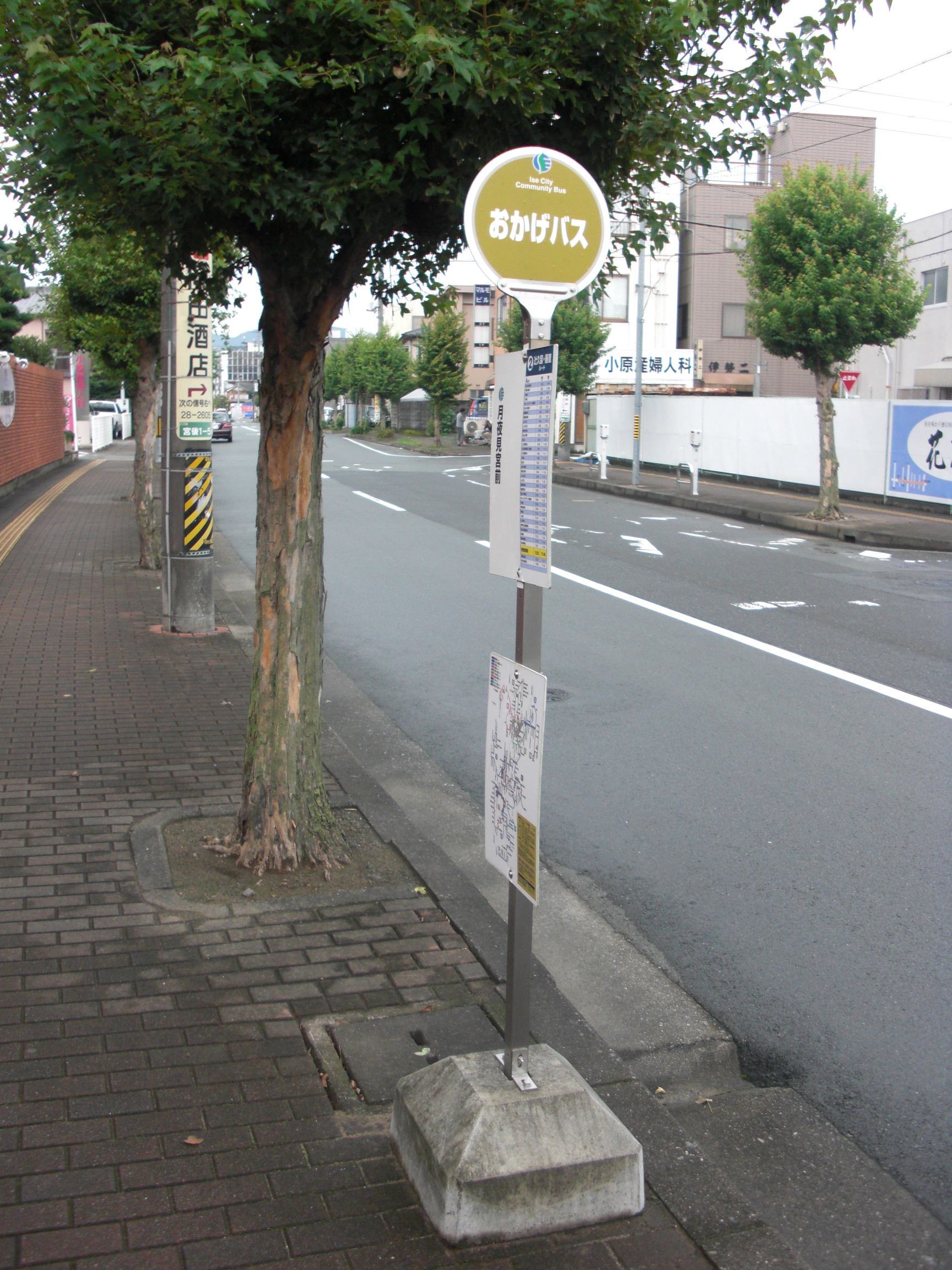 Tsukiyomi-no-miya-mae Bus Stop for Ise City Community Bus "Okage Bus"